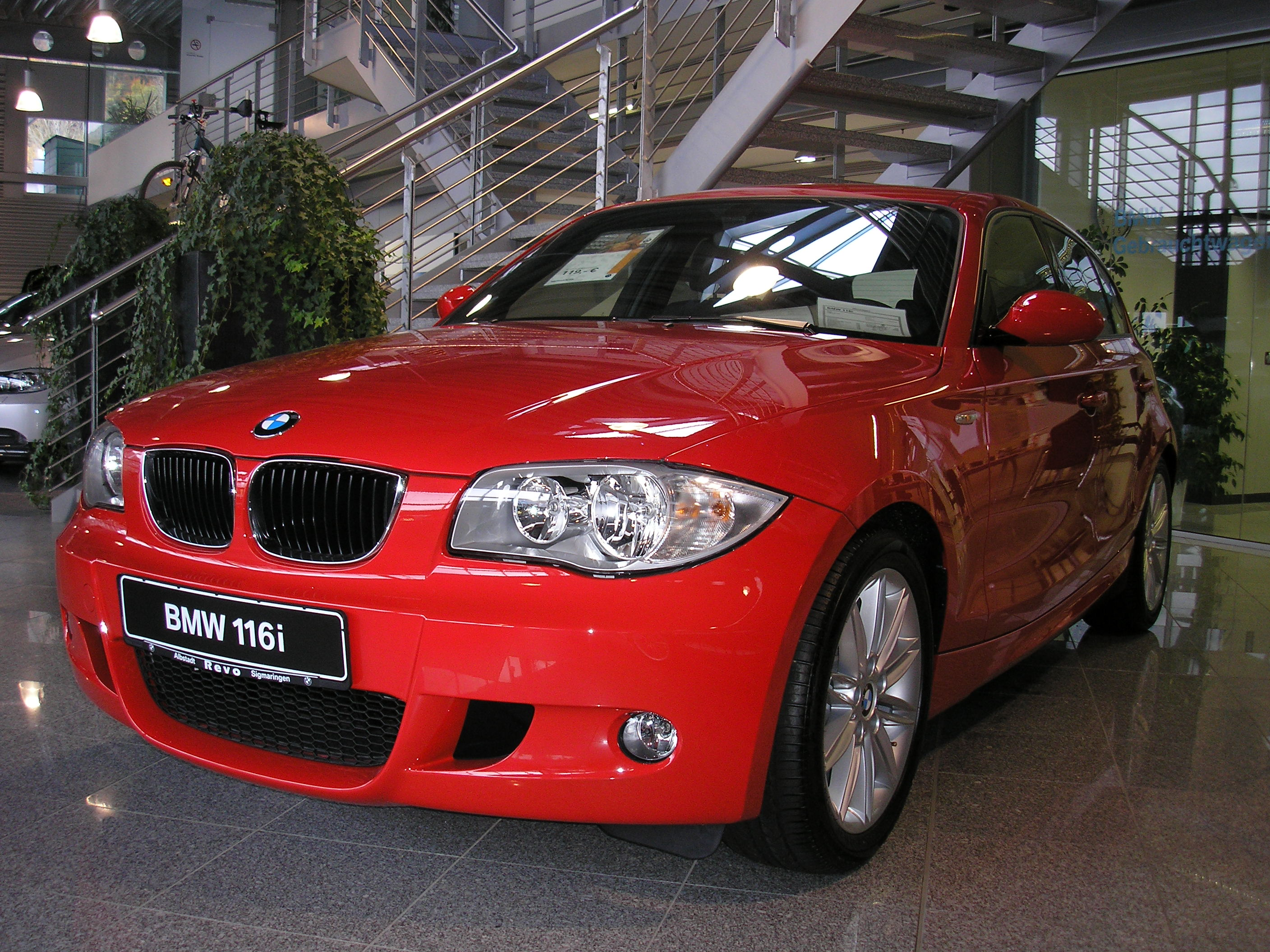 BMW 116i with/mit/avec Sportpaket